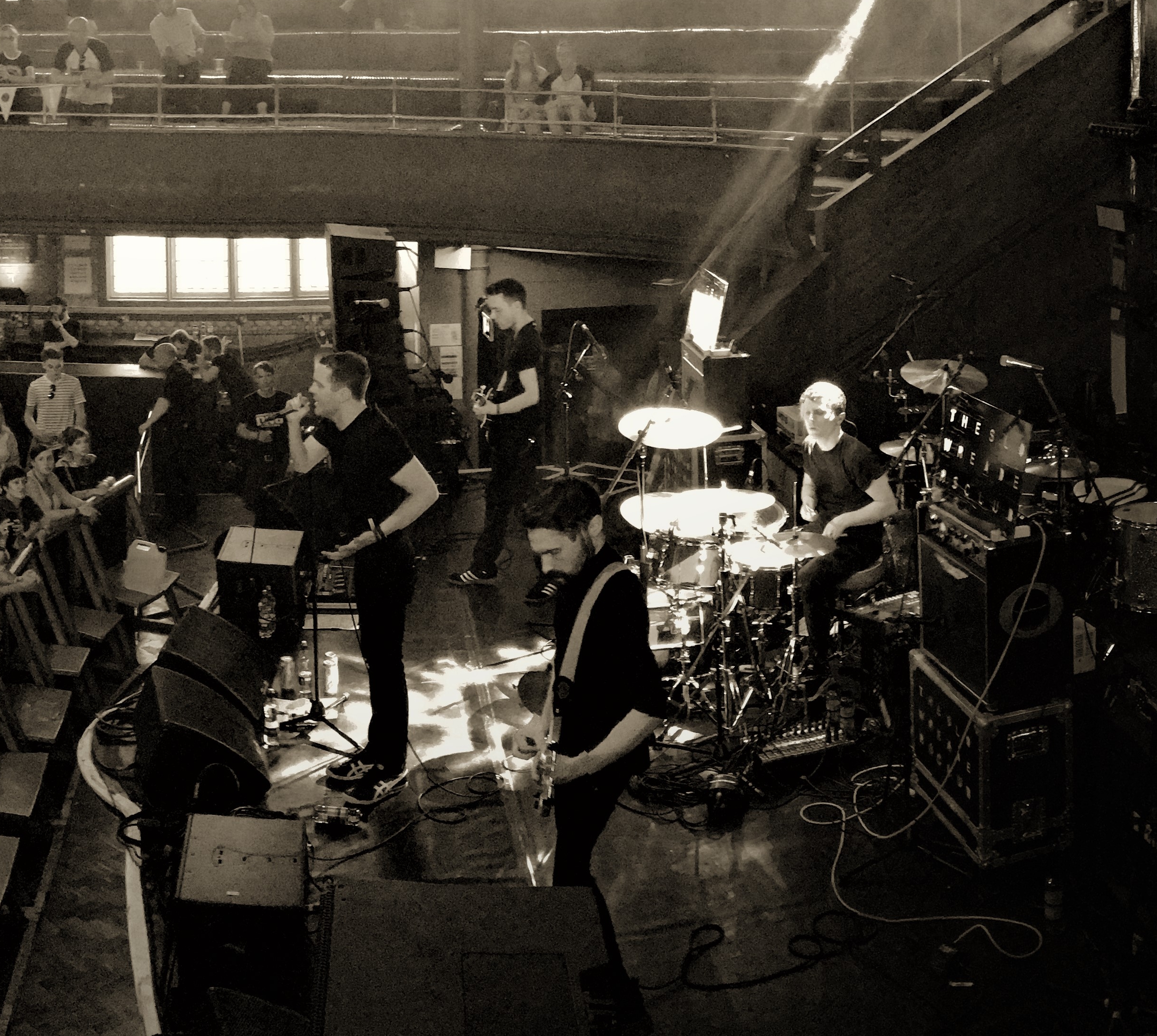 The Slow Readers Club (band) perform on stage at Dot to Dot Festival